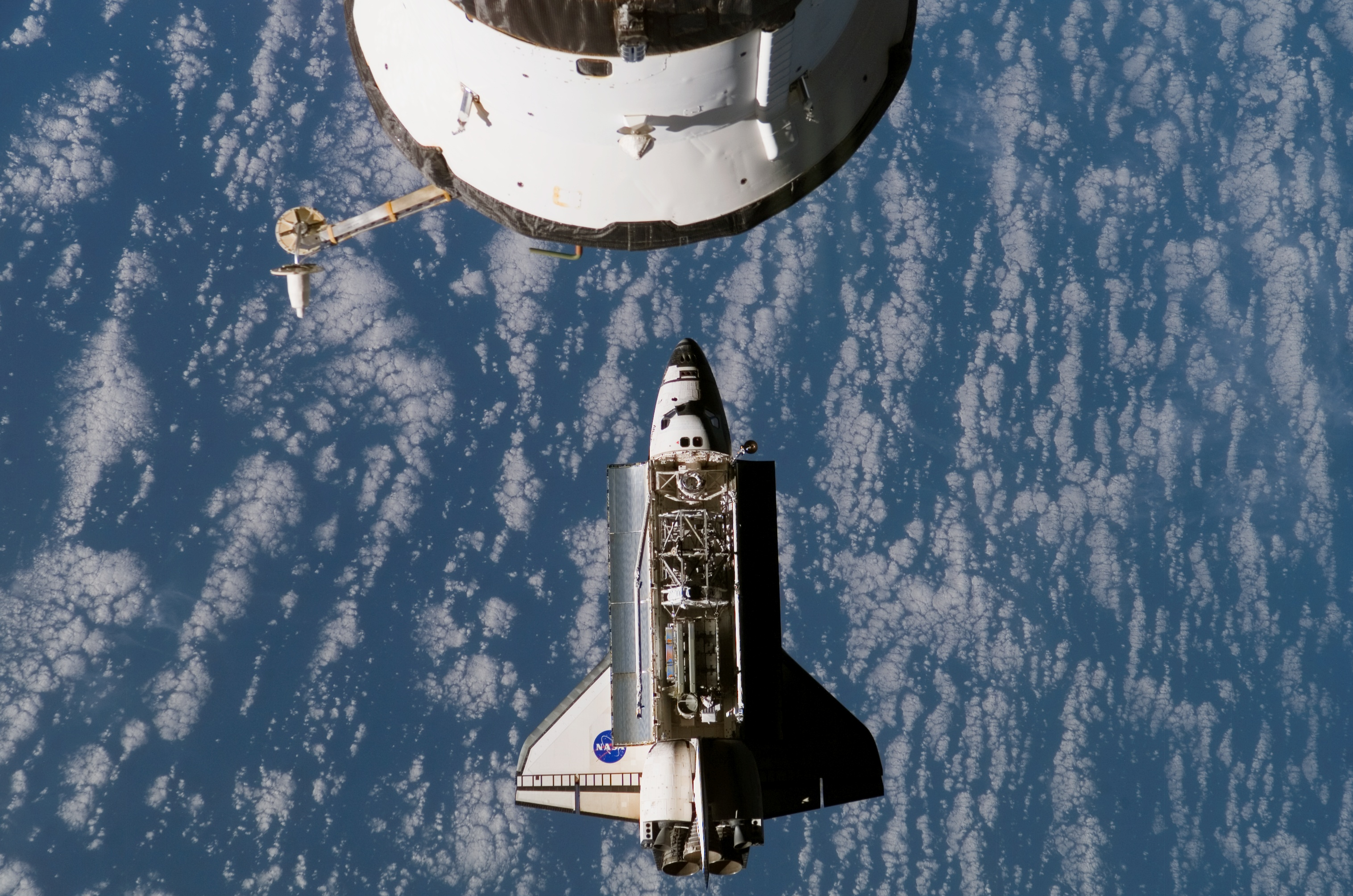 Backdropped by a blue and white Earth, the Space Shuttle Atlantis approaches the International Space Station during STS-117 rendezvous and docking operations. Docking occurred at 2:36 p.m. (CDT) on June 10, 2007. A pair of solar arrays and starboard truss segments (S3/S4), which are later to be attached to the station and outfitted during three spacewalks, can be seen in Atlantis' cargo bay. A docked Soyuz spacecraft is visible at top center.